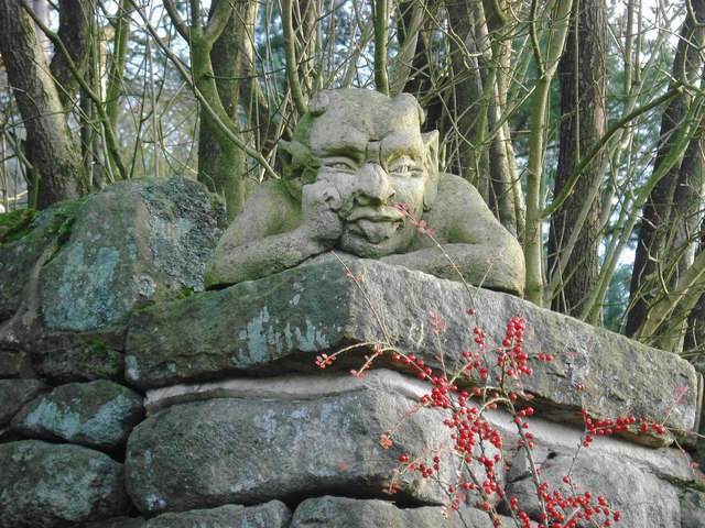 I'm watching you Charming carved stone gremlin keeping an eye on the walkers as they pass by the posh houses in Grindleford.